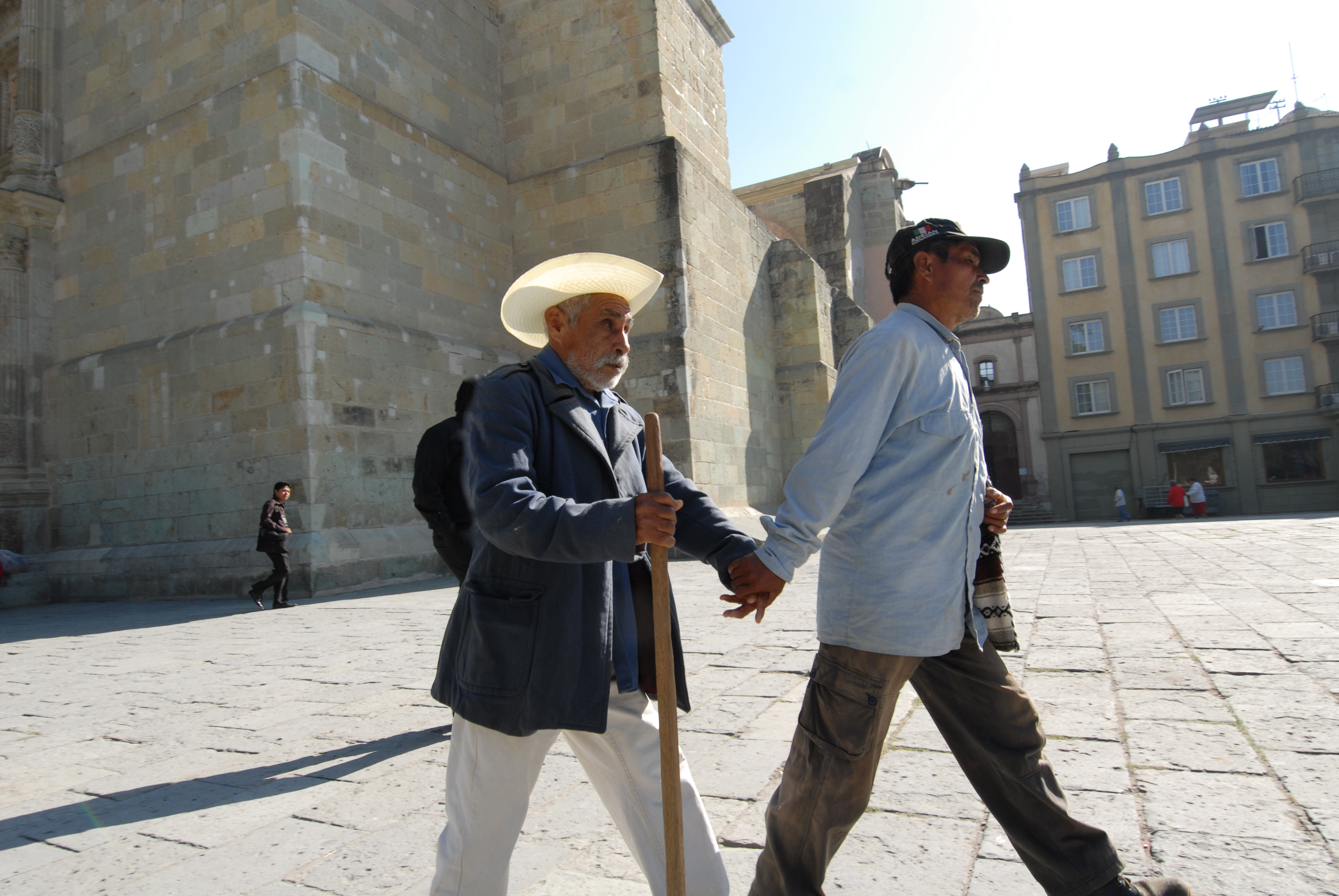 Older blind man with walking stick is led by the hand across the town's zocalo during the early morning wearing a wide brimmed cowboy hat. Oaxaca, MX